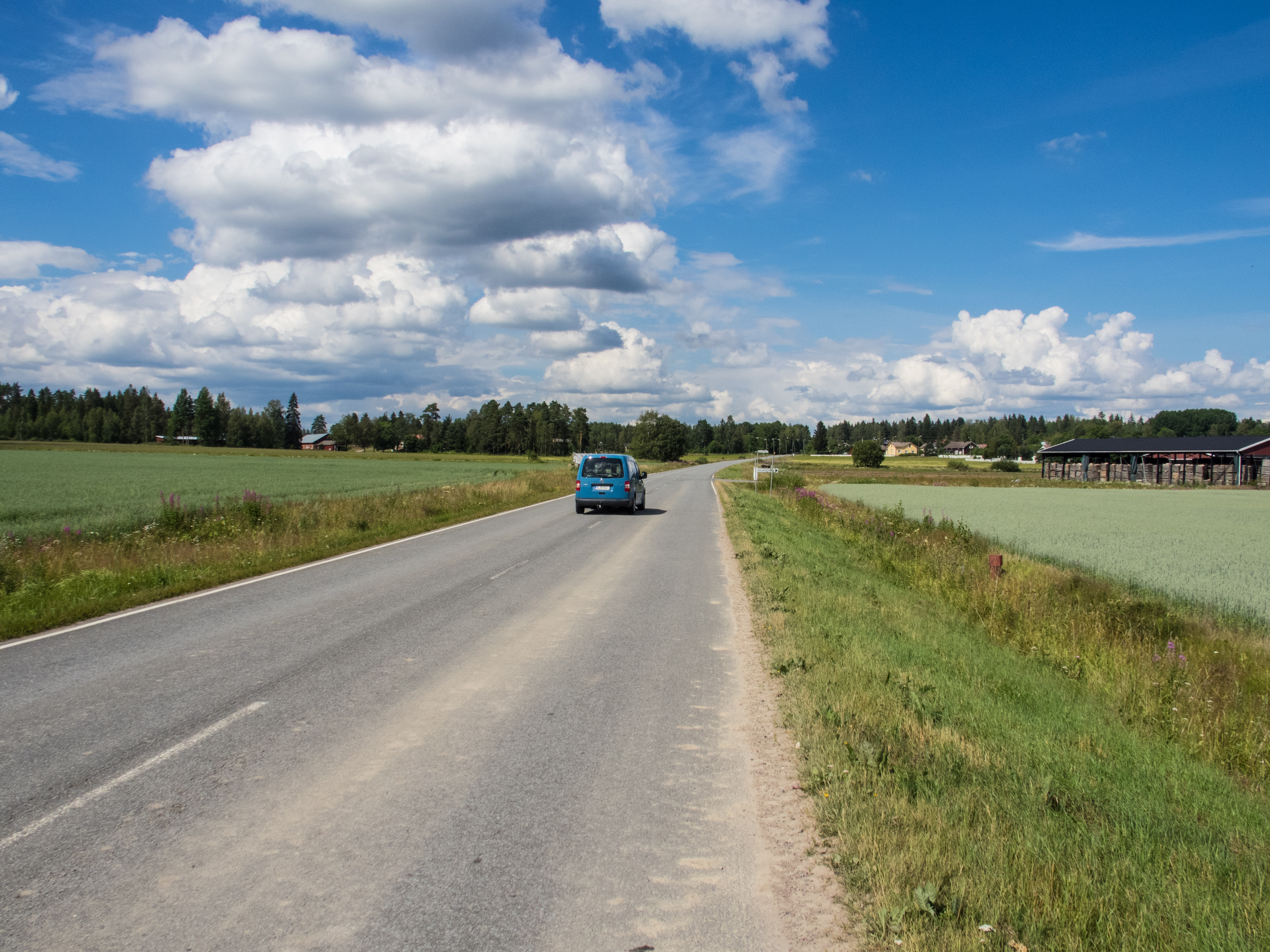 Connecting road 2053 along the western coast of Pyhäjärvi, runs from Honkilahti to Mestilä in Eura, Finland.